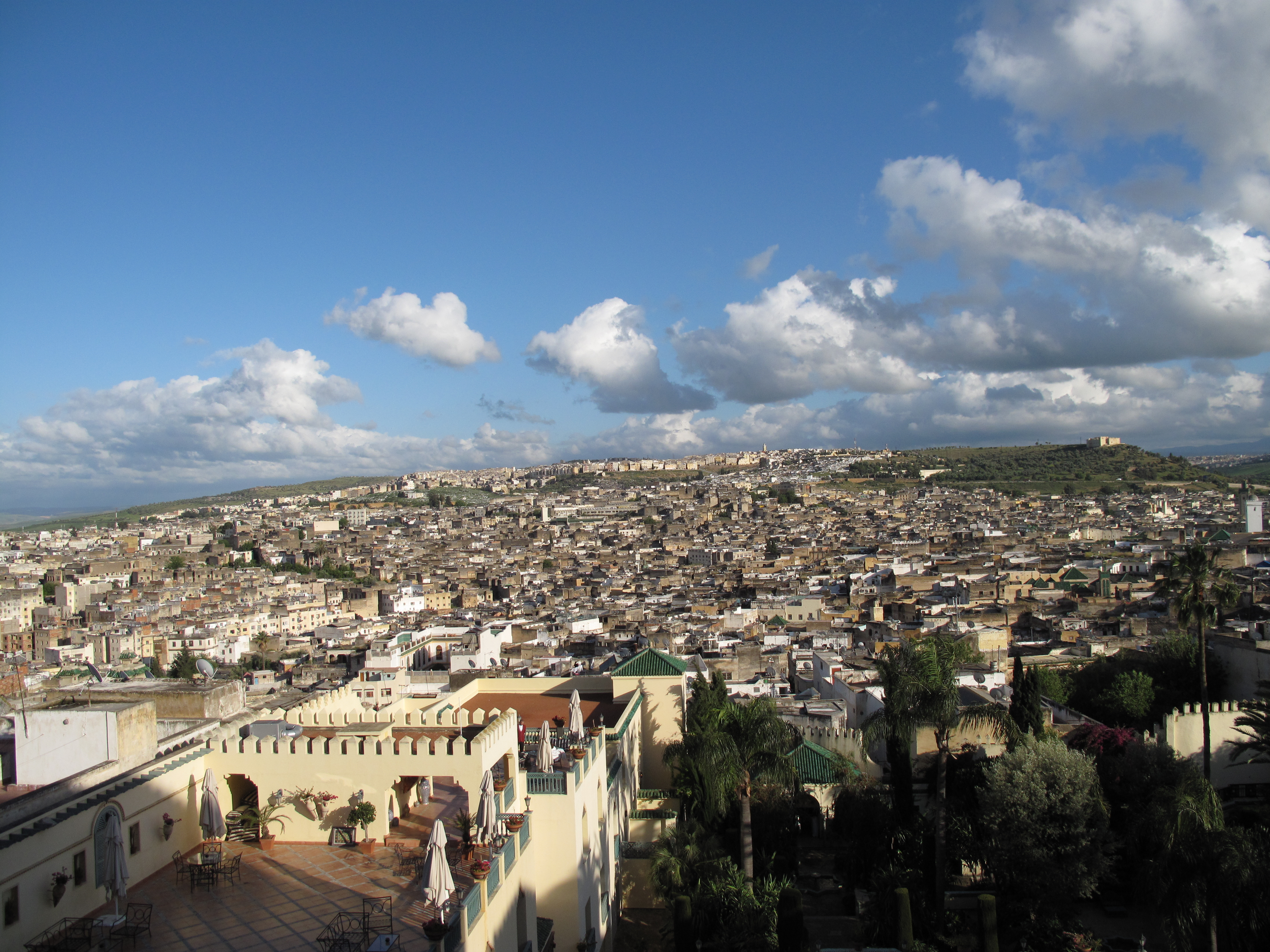 A view of the Medina from the Jamai Palace, Fes, Morocco. Vue de la Medina de Fès, Palais Jamai, Fès, Maroc.